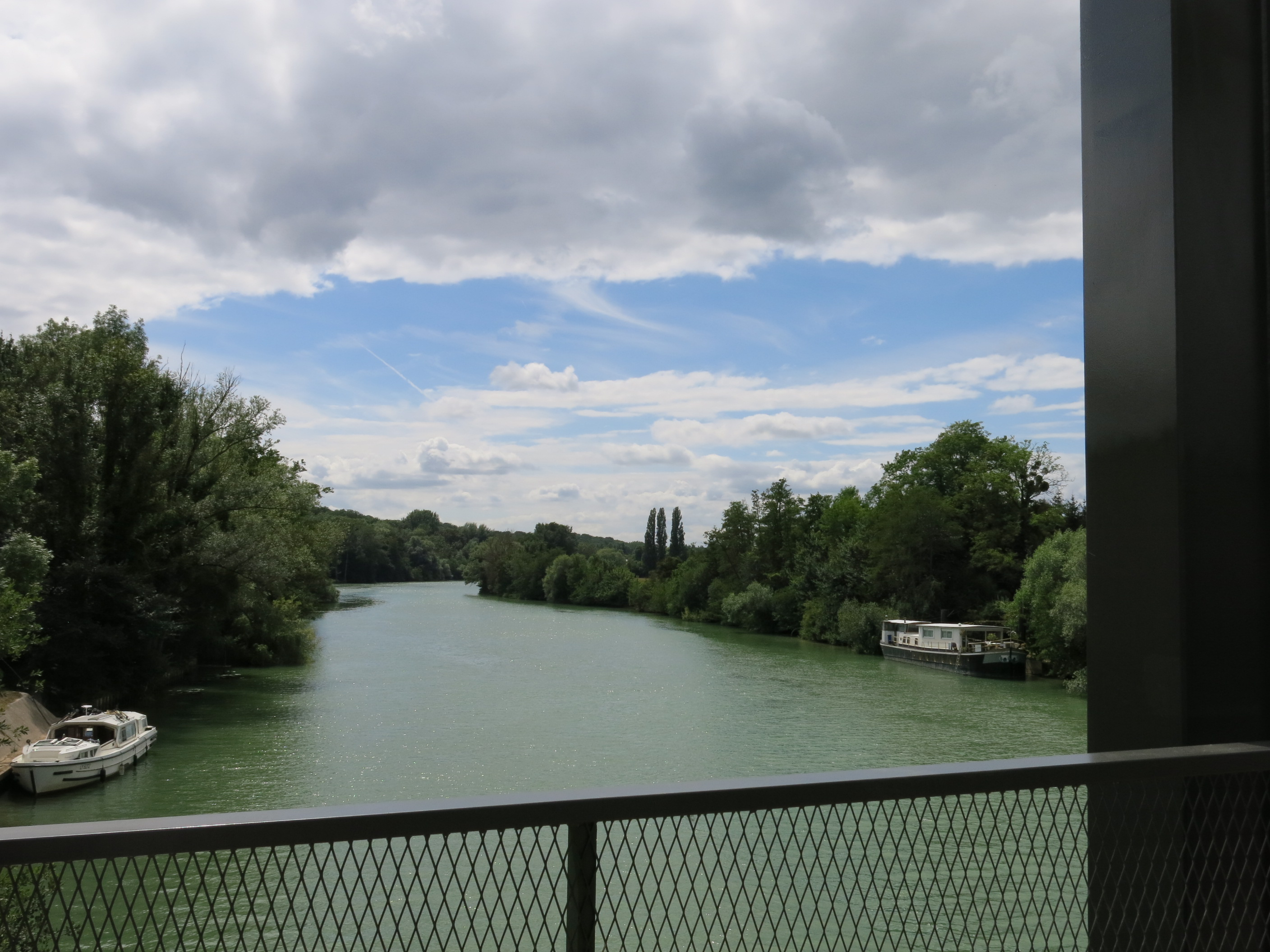 The gateway Dampmart-Chessy (Seine-et-Marne, France).